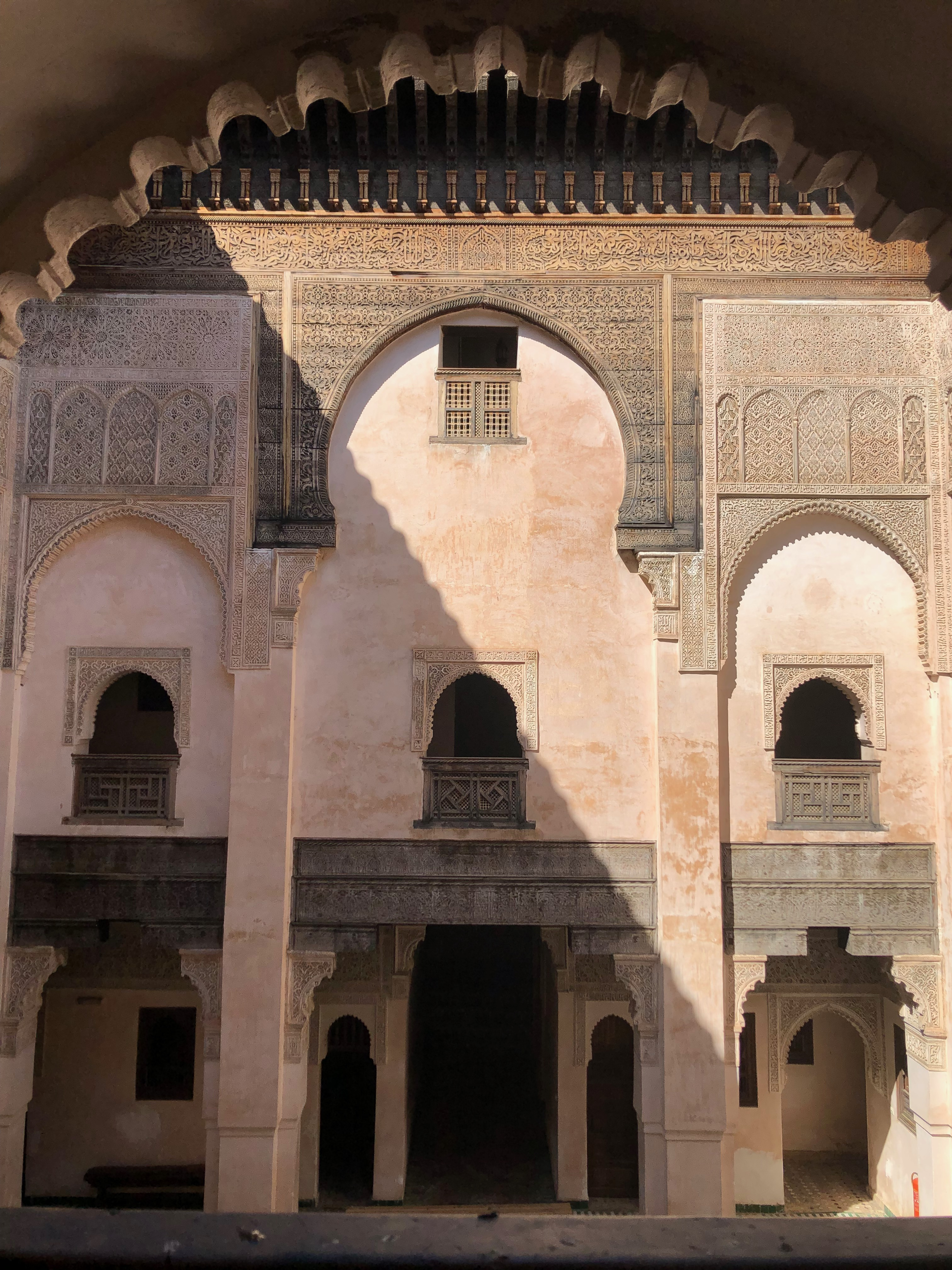 Funduq Al-Baraka Médina de Fès sanae:280008